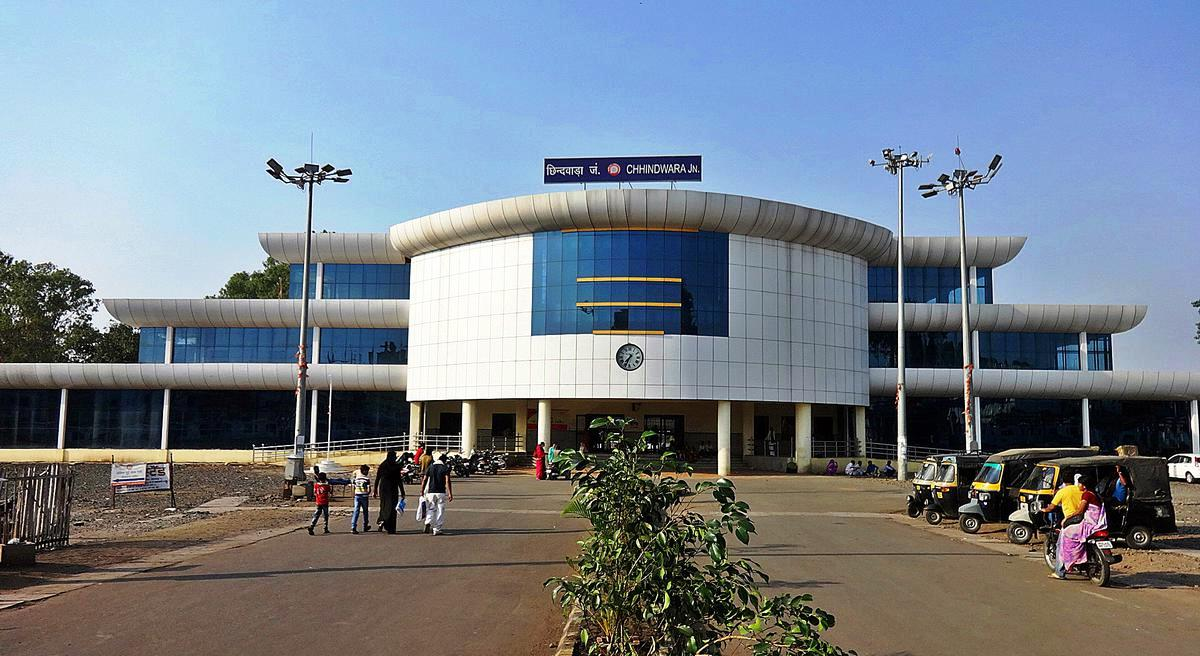 Model Rail Station Chhindwara Junction